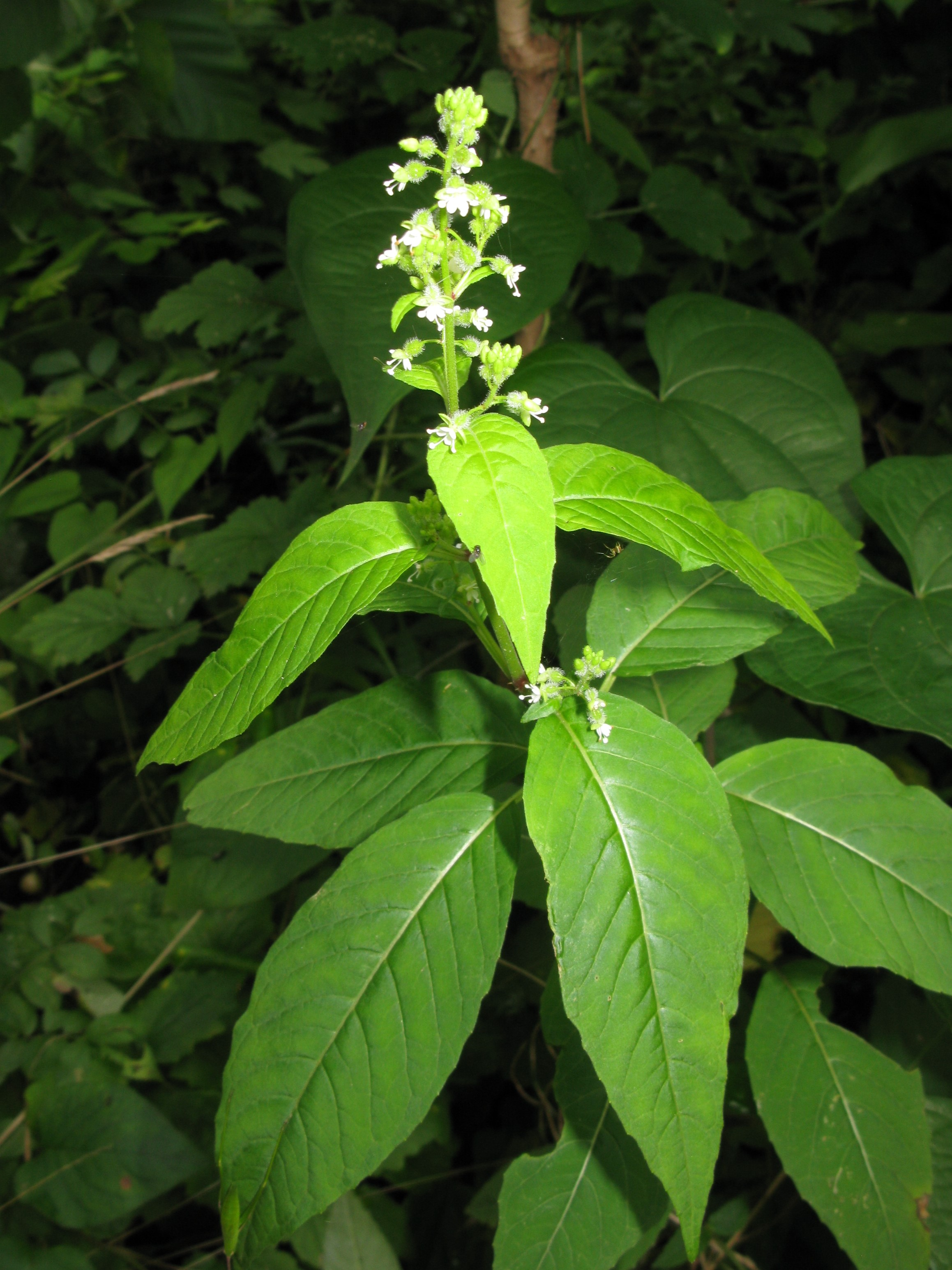 Circaea mollis, Shonai area, Yamagata pref., Japan